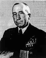 Rear Admiral James Fife, Jr.